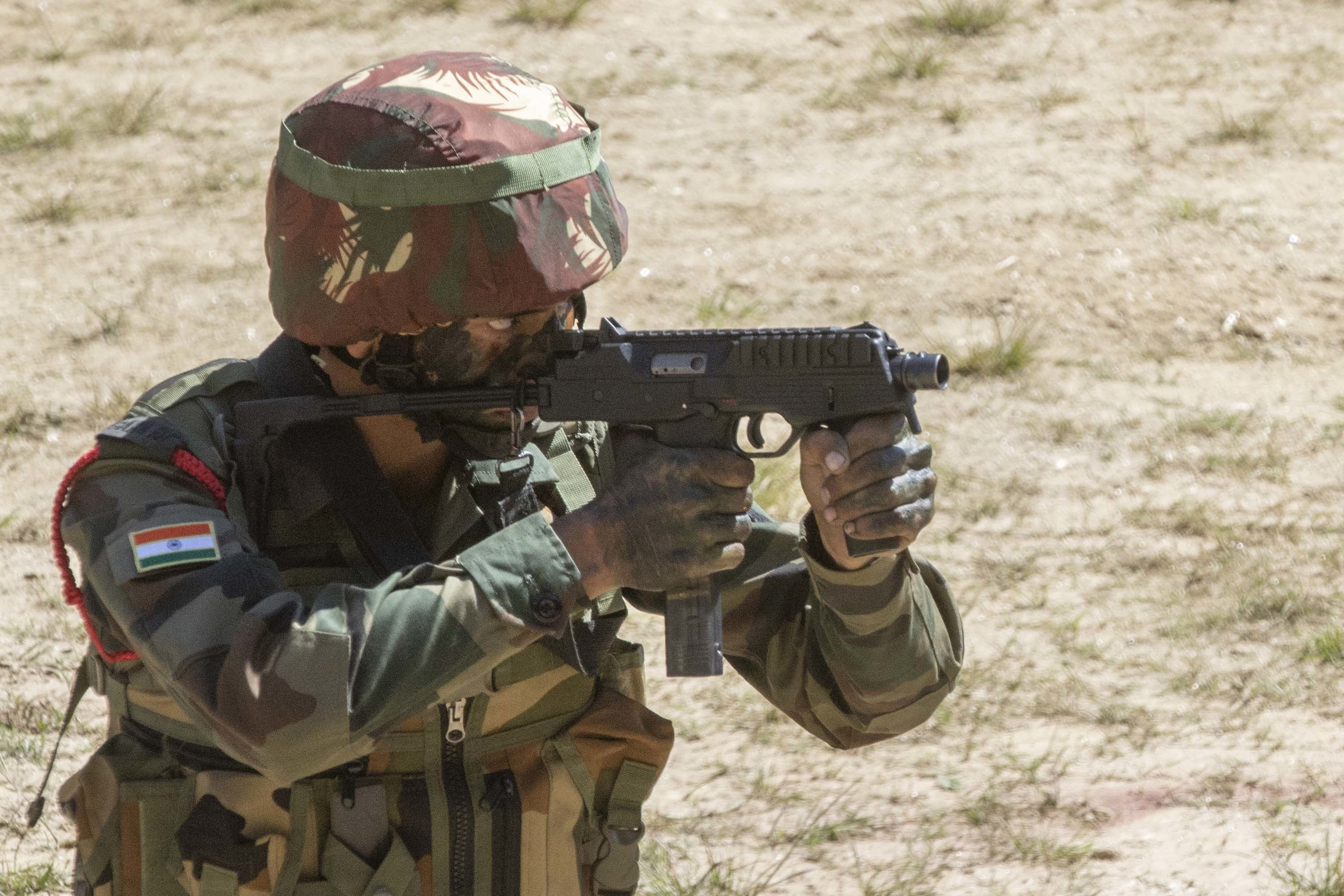 A Soldier with the Indian army maneuvers toward a shoot house during a room clearing demonstration Sept. 21, 2018, at Chaubattia Military Station, India. This was part of Yudh Abhyas, an exercise that enhances the joint capabilities of both the U.S. and Indian army through training and cultural exchange, and helps foster enduring partnerships in the Indo-Asia Pacific region